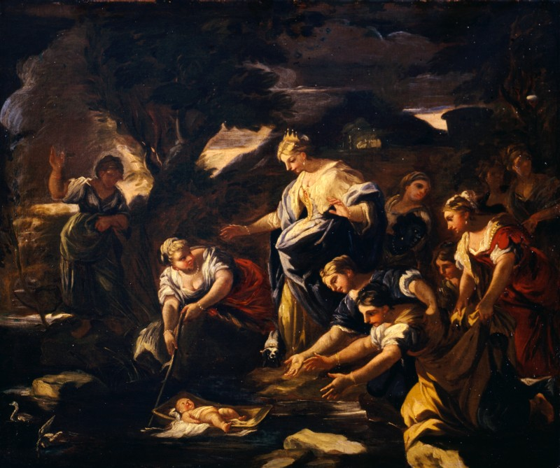 Purchased on the antique market as a work by Luca Giordano, this painting can, as Andrea Spiriti noted in his description, be compared with the canvas on the same subject in the North Carolina Museum of Art, Raleigh [1]. While some stylistic weaknesses, partially accentuated by a less than perfect state of preservation, would suggest that it may be a copy, as Spiriti points out, the painting does display elements of marked quality, above all in the handling of colour and the definition of the faces. This evidence supports the view that the Cariplo Foundation canvas is not simply a copy by an unknown hand but rather the work of someone in the entourage of Luca Giordano. As the recent studies by Oreste Ferrari and Giuseppe Scavizzi have established, replicas of the Neapolitan master’s works were frequently produced by some of his assistants, especially Nicola Malinconico and Giuseppe Simonelli. The latter worked in such close contact with Luca Giordano that he was assigned the task of completing the jobs left unfinished on the master’s departure for Spain. This talent for replication to the point where it sometimes proved difficult to distinguish between the original and the copy was widely recognised by contemporaries, as documented in the sources. At the same time, it also constituted the limitation of an artist who never moved beyond the master’s style and especially his “dark manner”. The Cariplo Foundation painting can be compared with the Prodigal Son series from the H. Meade-Fetherstonhaugh Collection at Uppark, now owned by the National Trust. The themes of Giordanesque painting are developed with less fluidity and spontaneity, and this is a significant characteristic of Simonelli’s production in general. As regards dating, the work was probably produced in much the same period as the American prototype, which was painted around 1675–80.